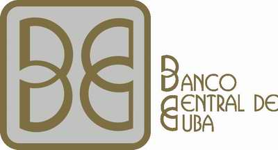 Banco Central de Cuba